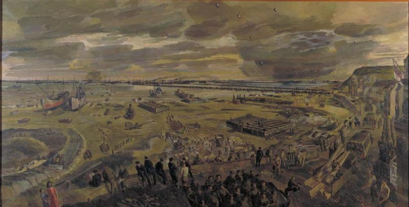 The Landing in Normandy; Arromanches, D-day plus 20, 26th June 1944 image: A panoramic view of a Normandy beach scattered with soldiers and equipment. In the background can be seen the artificial harbour known as Mulberry B. In the foreground observers watch road building and repairs, and combat troops being transported inland to the battlefront.